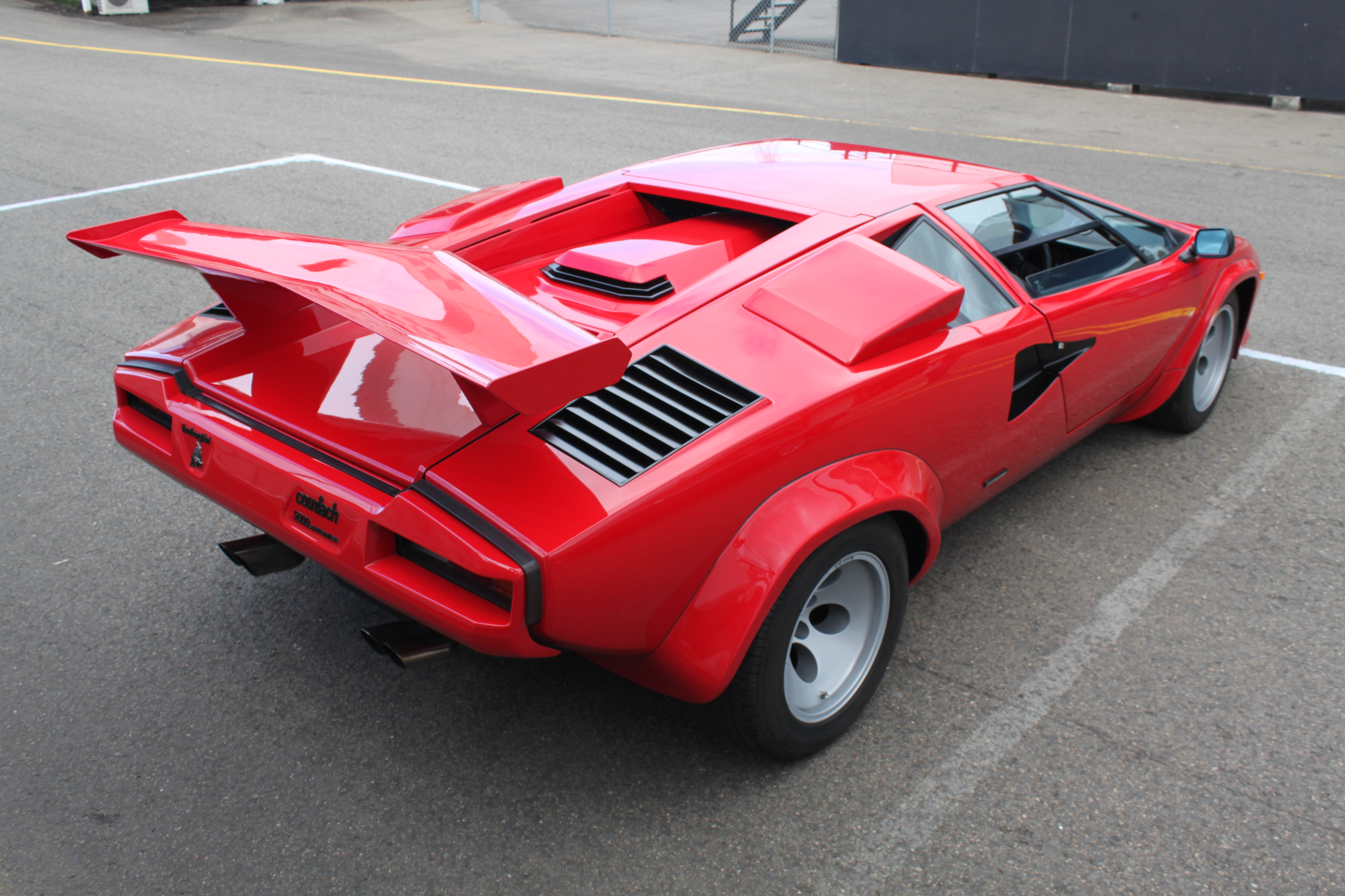 Lamborghini Countach LP 5000QV